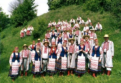 цйк